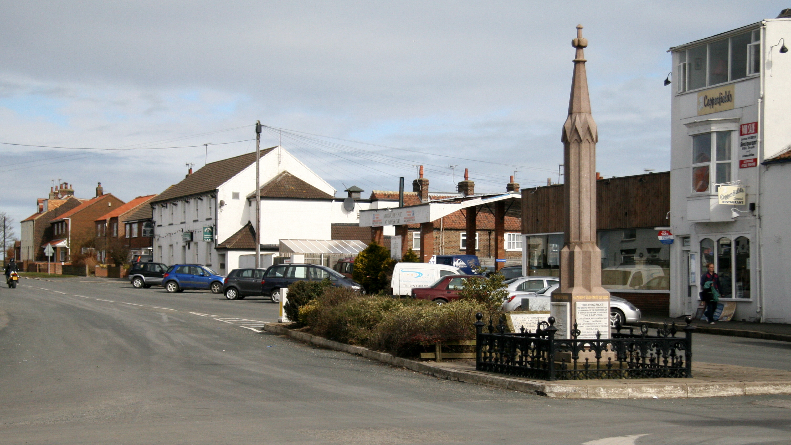 Chapel Street and the Fishermans Memorial, Flamborough, East Riding of Yorkshire, England. The photograph shows the Fishermans Memorial on Chapel Street close to the junction with Carter Lane Post Office Street and Tower Street. On a plaque at the base it carries the following inscription: GREATER LOVE HATH NO MAN THIS MONUMENT WAS ERECTED BY PUBLIC SUBSCRIPTIONS TO COMMEMORATE THE CONSPICUOUS ACT OF BRAVERY OF THE CREW OF THE COBLE "TWO BROTHERS." GEORGE GIBBON, MELCHOIR CHADWICK THOMAS LENG MAJOR WHO GAVE THEIR LIVES IN A GALLANT ATTEMPT TO SAVE THE CREW OF THE COBLE "GLEANER." JOHN CROSS HIS TWO SONS ROBERT CROSS RICHARD MAJOR CROSS OF FLAMBOROUGH WHO ALL PERISHED NEAR THE WEST SCAR NORTH LANDING IN THE GREAT GALE FEBRUARY 5TH, 1909 Follow this , which describes the circumstances of the loss. For a photograph of a Flamborough memorial to a loss in 1984, click here: . - - - See also this photograph by J Thomas, 1212599.